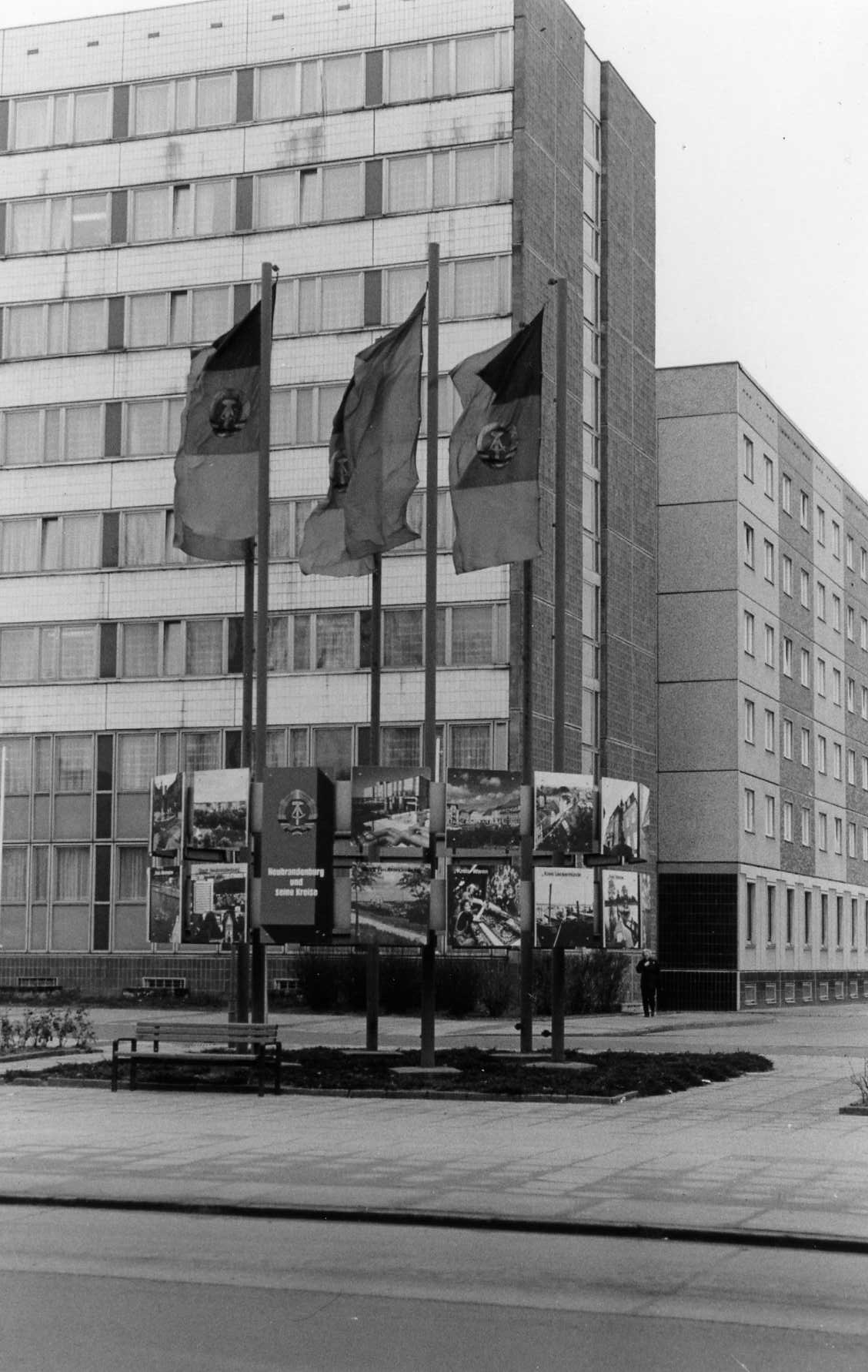 DDR Flags fluttering outside the bezirkshaus, with photographs of the various Kreis Towns of Bezirk Neubrandenburg forming an attractive monochrome rondel around the base of the flagpoles.